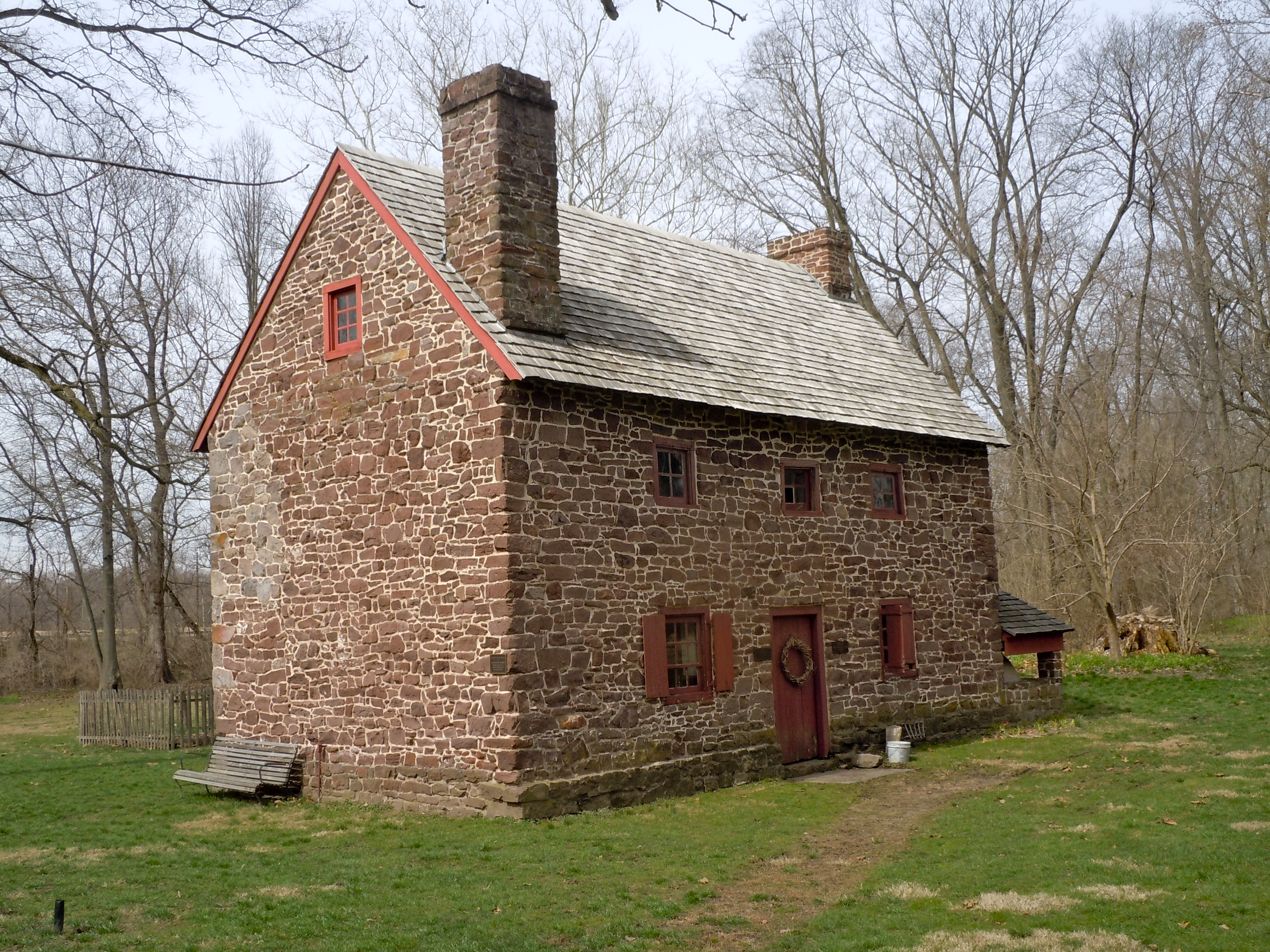 Old Swede's House (aka Monce Jones House) on the NRHP since January 21, 1974. On Old Philadelphia Pike in Douglassville, Amity Township, Berks County, Pennsylvania (between Reading and Pottstown). Built 1716, maintained by Berks County Historical Society. On the banks of the Schuylkill River.